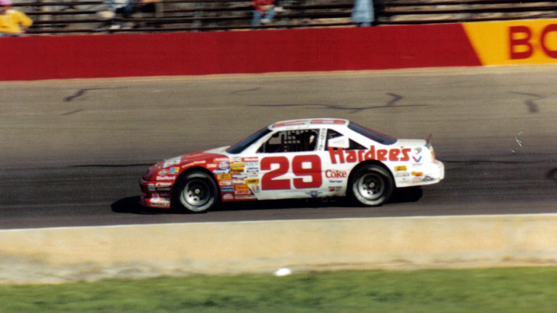 The Cale Yarborough #29 Hardee's Pontiac driven by Dale Jarrett to an excellent 5th place finish in the 1989 Checker Autoworks 500 at Phoenix.